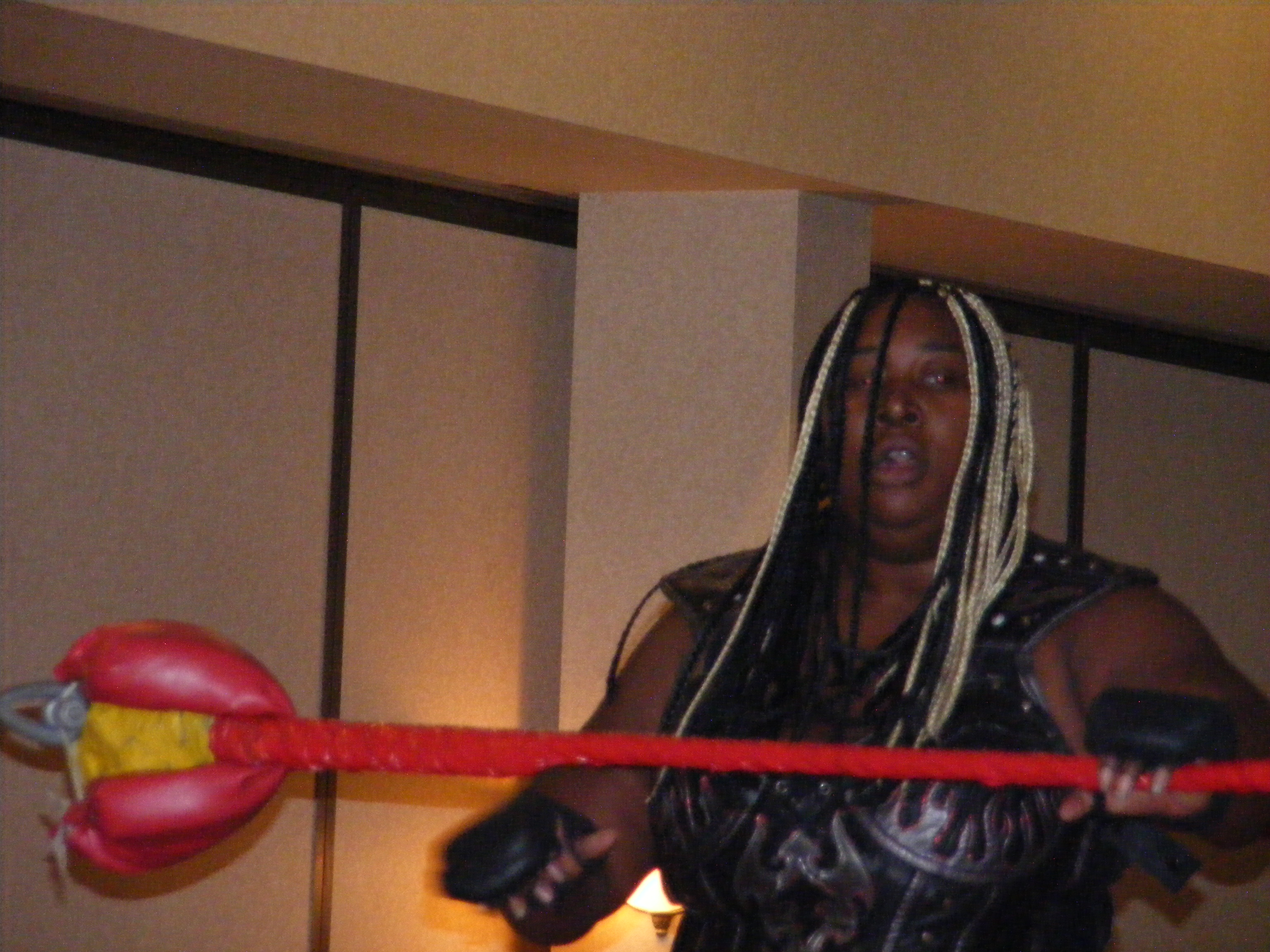 Professional wrestler Amazing Kong (real name Kia Stevens) at an NWA-LS show in June 2010 in Manchester, NH.